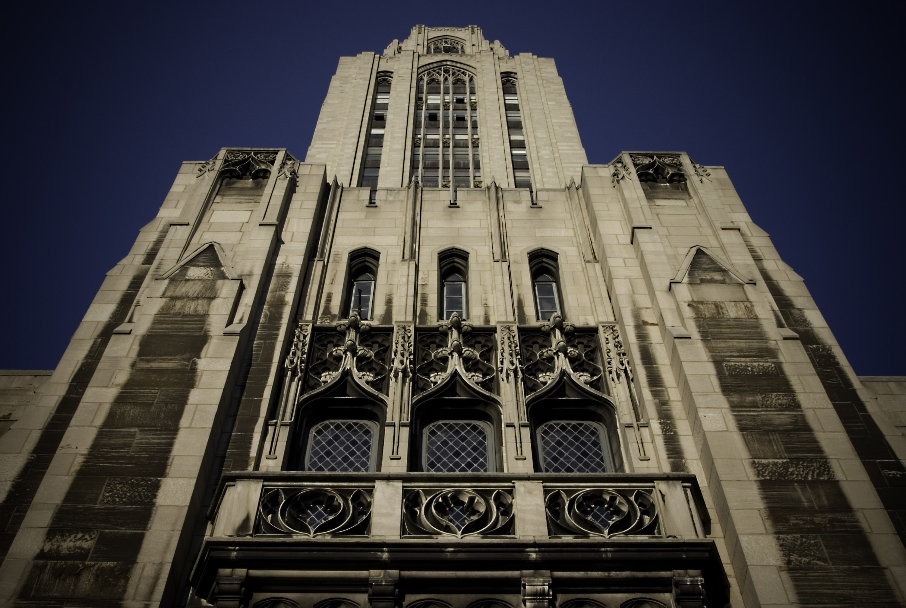 The centerpiece of my University, The University of Pittsburgh. The Cathedral of Learning is the tallest learning institution in the western hemisphere. The outside of the building is a bit grungy after being subjected to 70 years of pollution, but the University is starting a renovation process this fall to restore the building to its original shades.